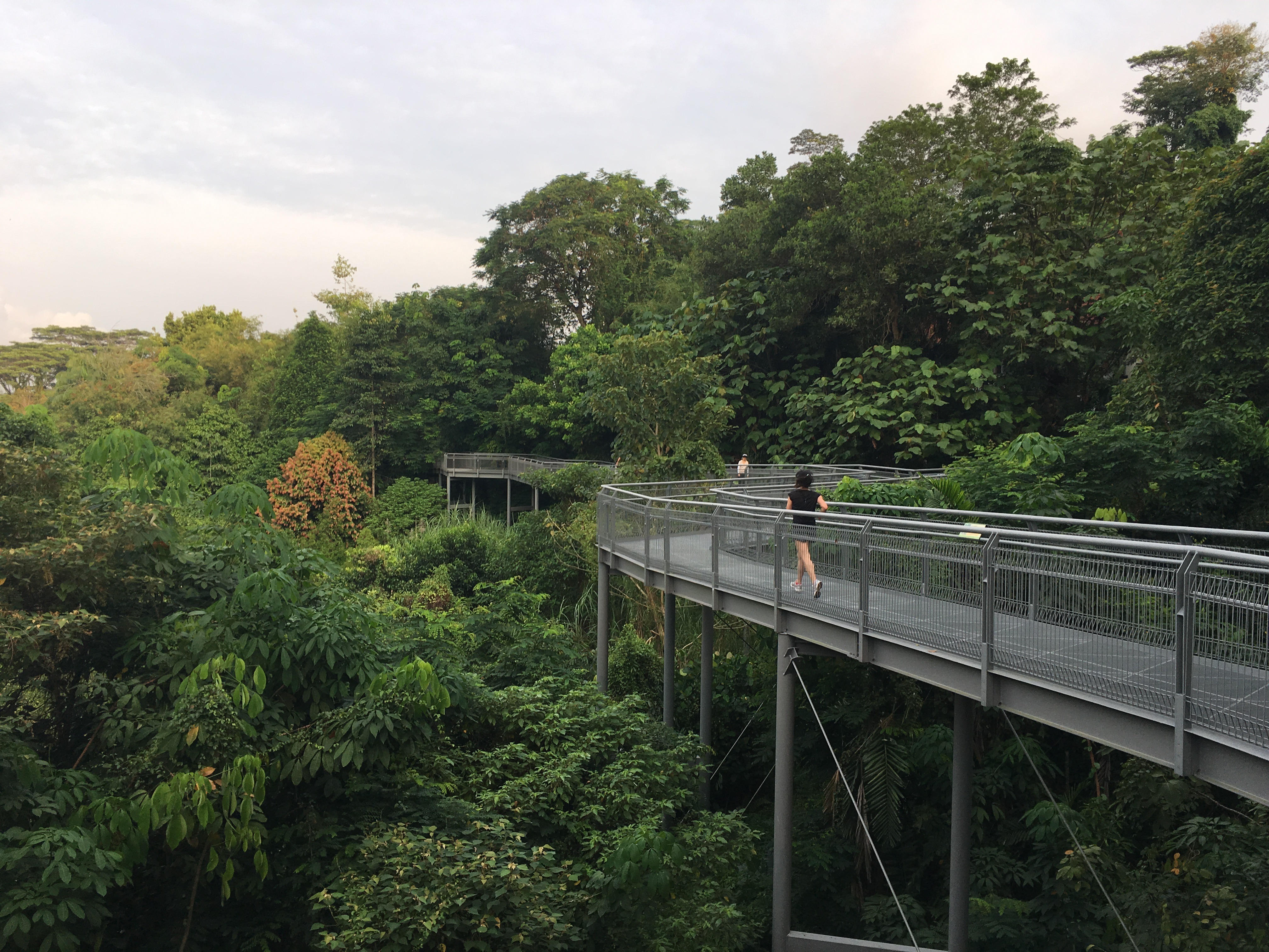 Forest Walk, Southern Ridges in 2016